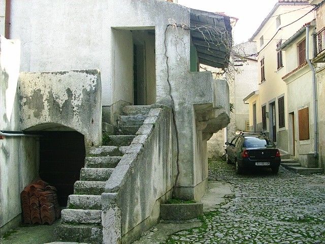 A town of Beli at the Cres Island, Croatia